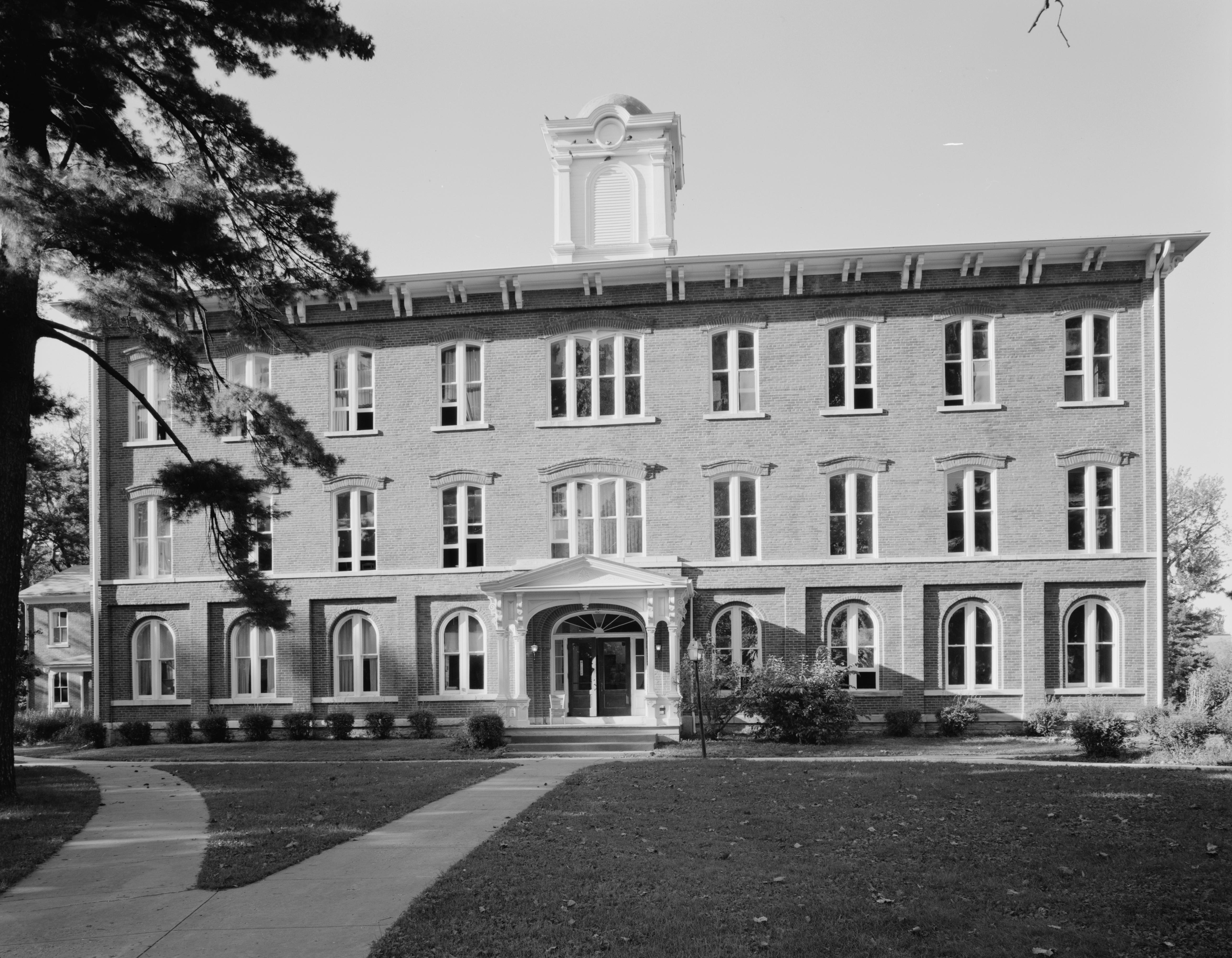 Southern side of Old Main on the campus of Iowa Wesleyan College in Mount Pleasant, Iowa, United States. Built in 1854, the building is listed on the National Register of Historic Places.